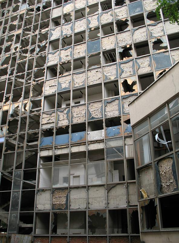 Destroyed Bank building in Mostar (Herzegovina). This building was never used as bank building. When the construction was finished, war broke out. It is one of the highest buildings of Mostar with a good view over the city, that is why it was occupied by snipers. After the war a company established in a wing offices, but they seem to have suddenly been abandoned, anywhere on the floor are documents and folders with (or without) confidential information. (translation of Dutch original description)